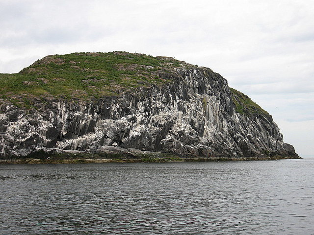 Craigleith. A small island off the East Lothian coast, Craigleith lies near the mouth of mouth of the Firth of Forth 1 mile north of North Berwick harbour. It rises to 24m and was purchased by Sir Hew Dalrymple from North Berwick Town Council in 1814. Craigleith is noted for its seabirds, including comorants, shag, guillemot and puffins. Geologically, Craigleith is a laccolith, a dome-shape igneous intrusion, composed of essexite.